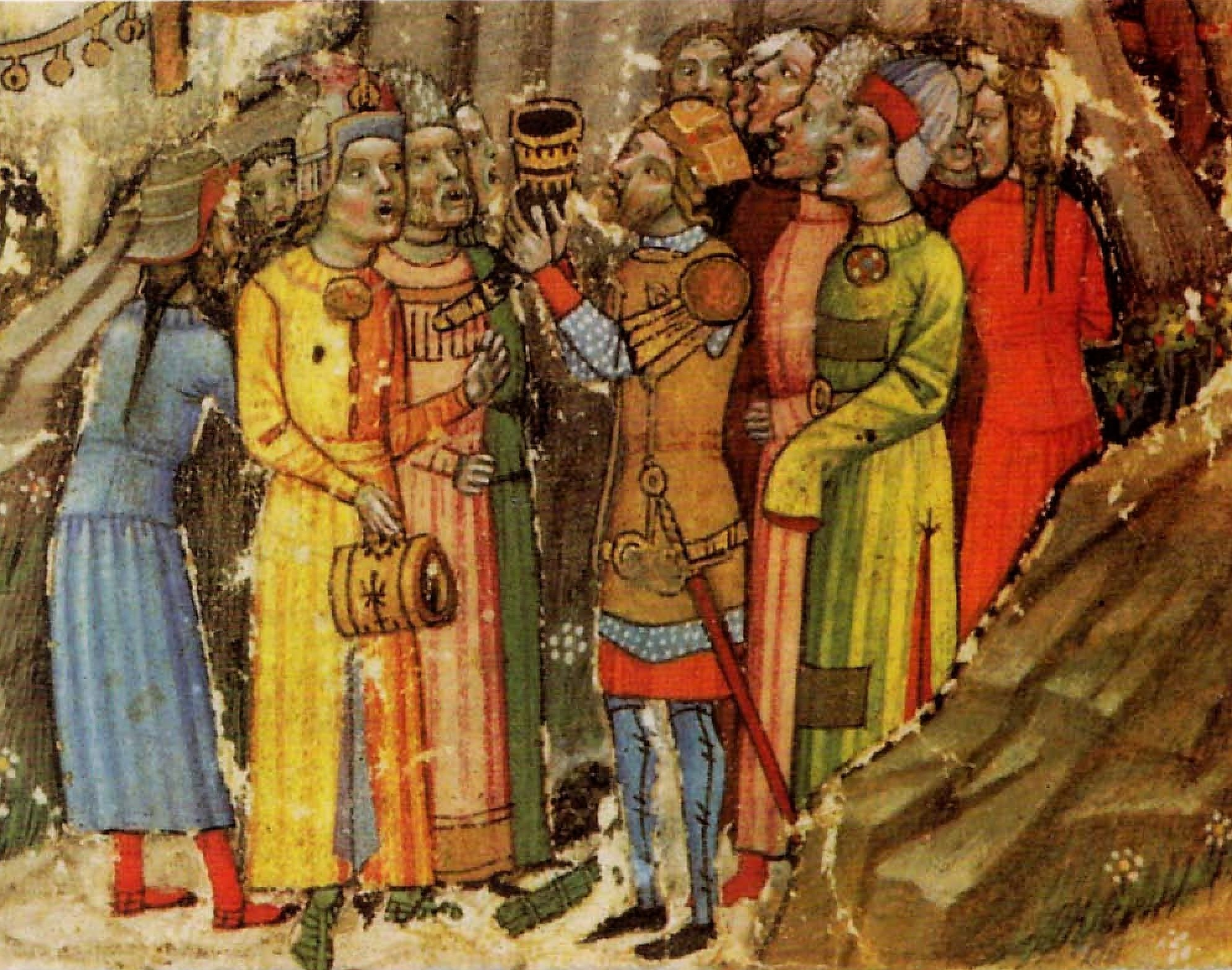 Árpád fejedelem ivókürtöt tartó alakja a Képes krónikában. László Gyula történész szerint talán az sem véletlen, hogy a Képes Krónika (14. század közepe) festője azért ábrázolta az aranysisakos hét vezér közt Árpádot úgy, hogy magasra emeli bölényszarv ivókürtjét, hogy emlékeztesse a fogadalomra a honfoglaló vezéreket.